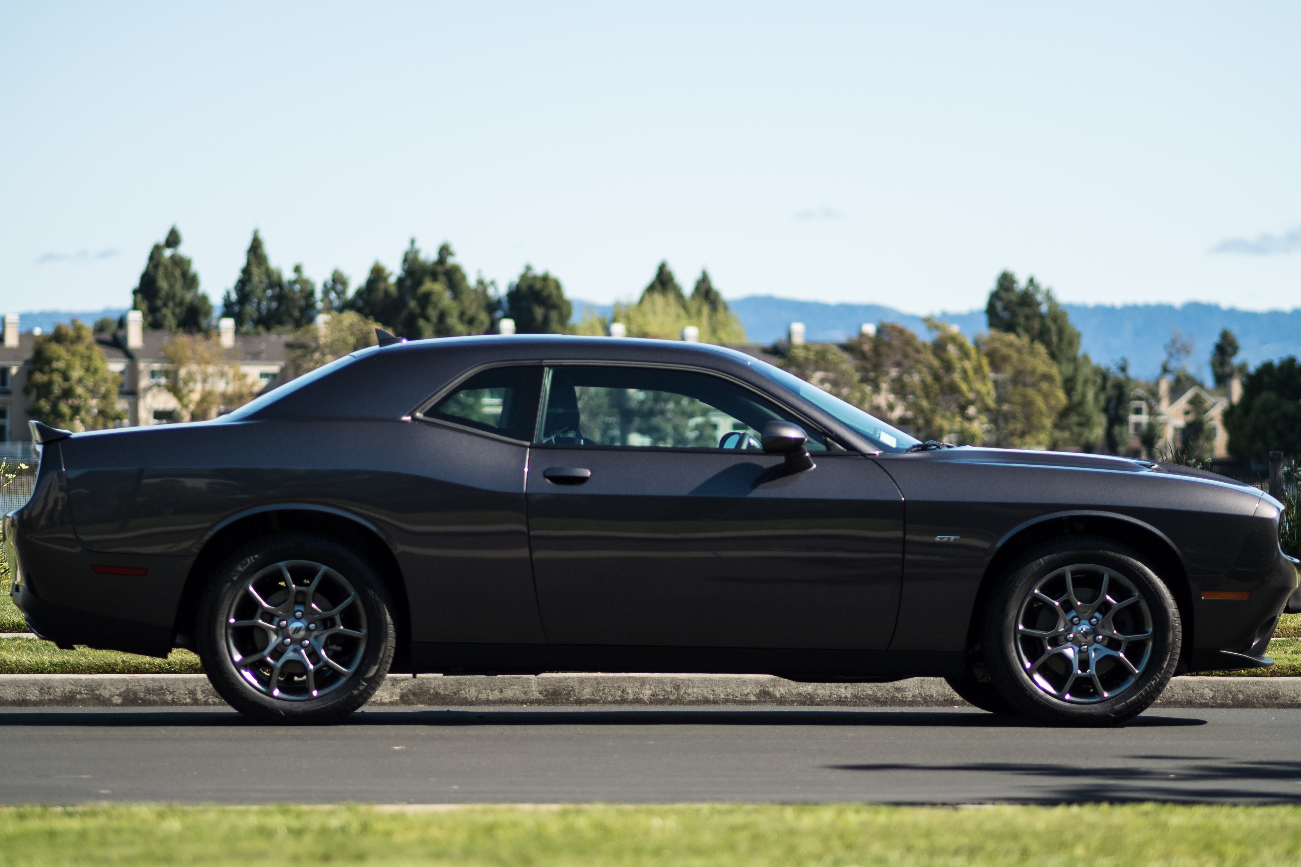 Note the 19" wheels and higher stance of the GT compared to other editions of the Challenger. The suspension of the car is configured that way to facilitate the AWD system.